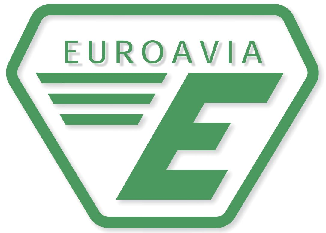 Logo of EUROAVIA international